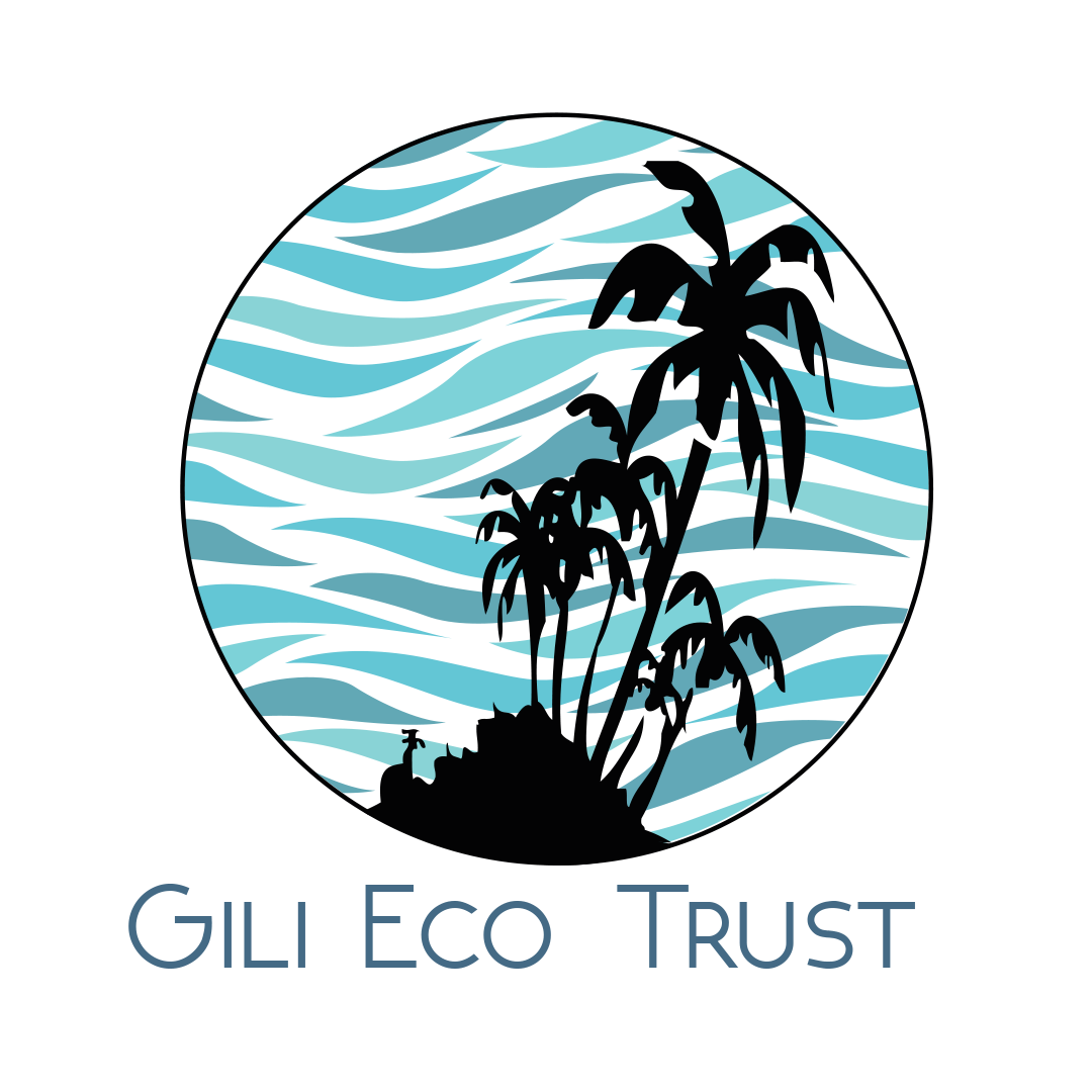 Logo Gili Eco Trust